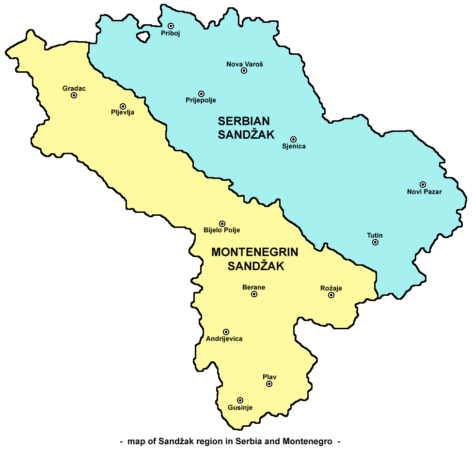 Map of Sandžak region in Serbia and Montenegro. Note: This map show Sandžak region in its largest geographical extent. According to some other views, Montenegrin municipalities of Plav and Andrijevica might not belong to Sandžak.Serbian / Montenegrin / Bosnian: Mapa Sandžaka u Srbiji i Crnoj Gori. Napomena: ova mapa prikazuje Sandžak u najvećem geografskom obimu. Prema drugim interpretacijama, crnogorske opštine Plav i Andrijevica ne spadaju u Sandžak.